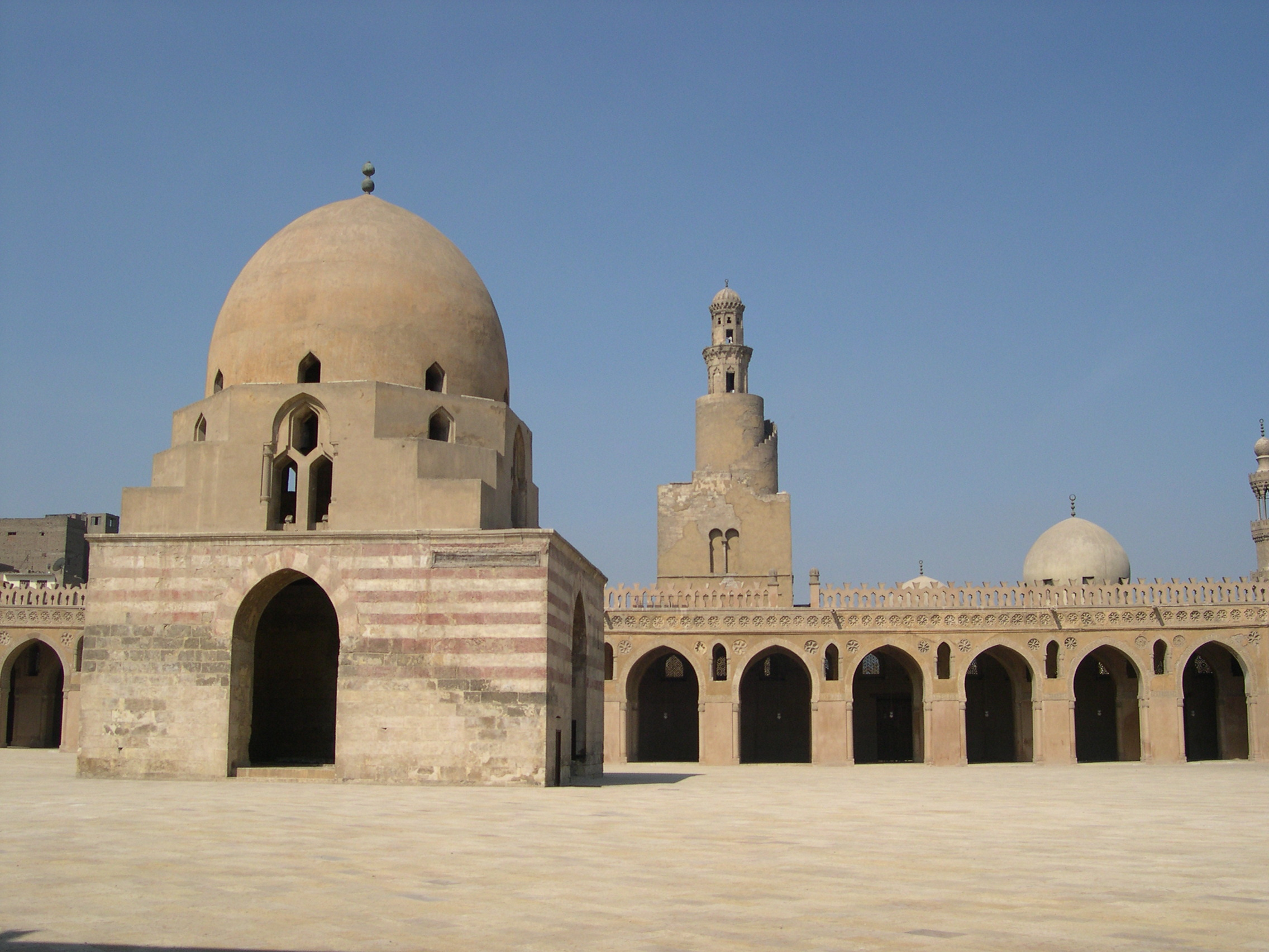 Ibn Tulun Mosque in Cairo